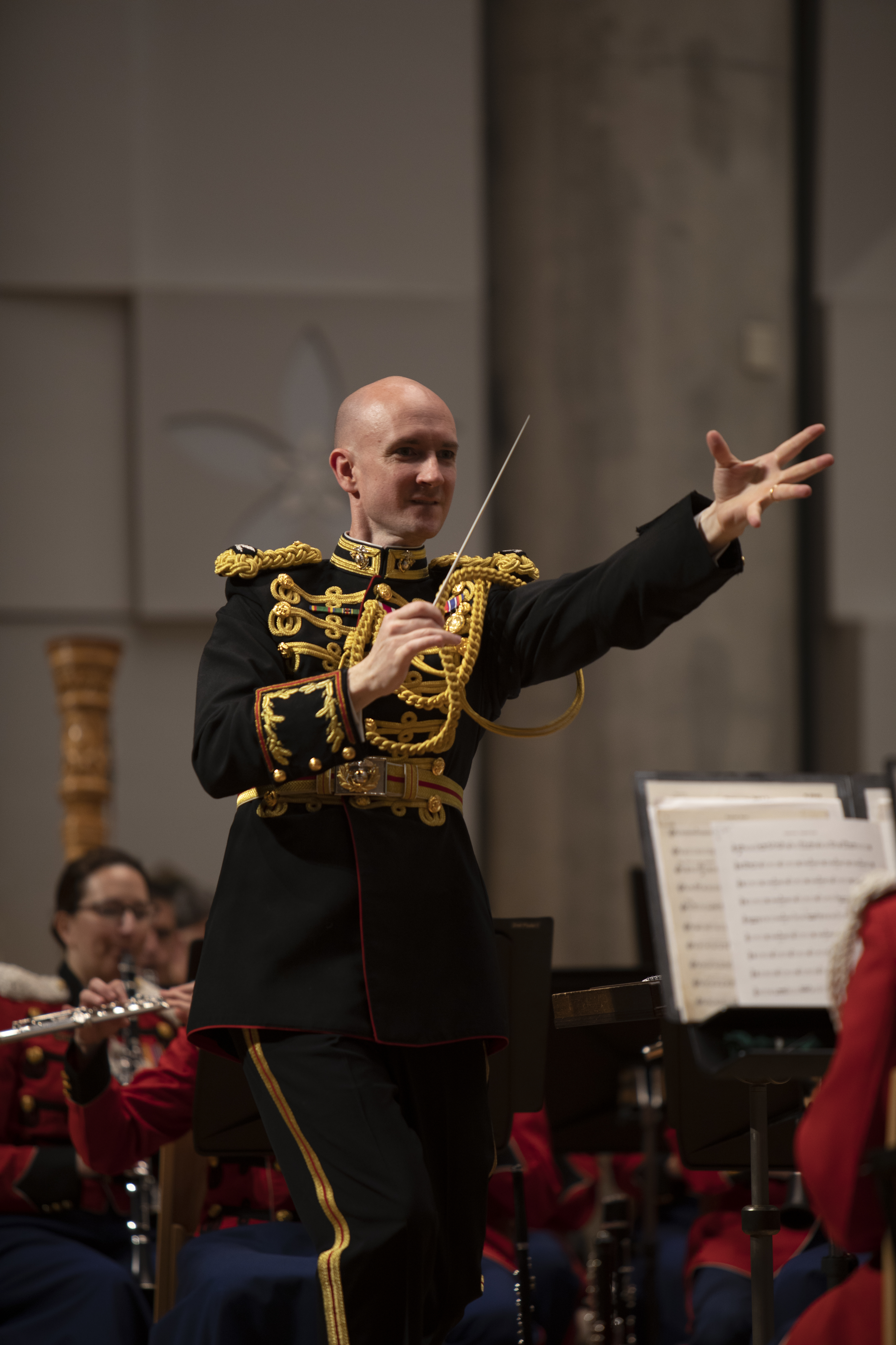 Marine Band